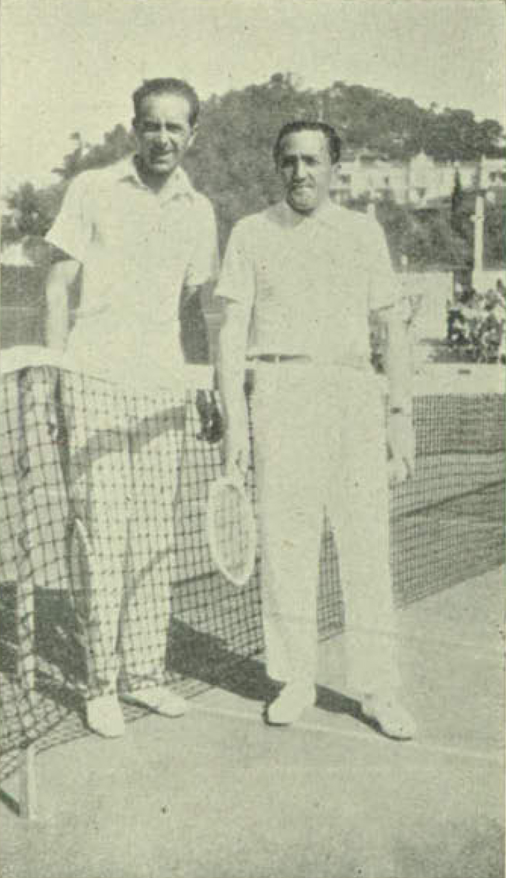 Tennis players Erik Worm and Béla Kehrling in San Remo in 1929